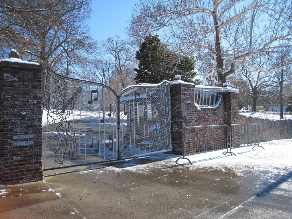 Graceland covered with snow. Memphis, Tennessee.